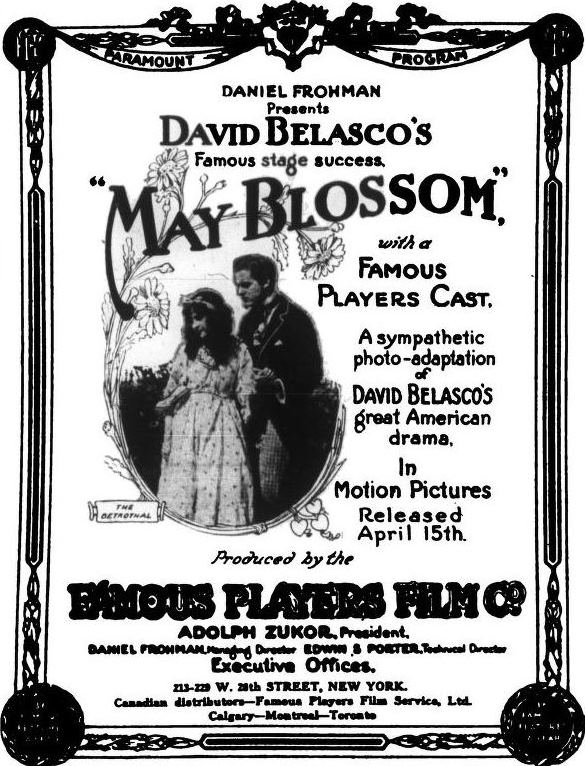 Advertisement for the American drama film May Blossom (1915) with Gertrude Robinson and Marshall Neilan, on page 24 of the April 2, 1915 Variety.